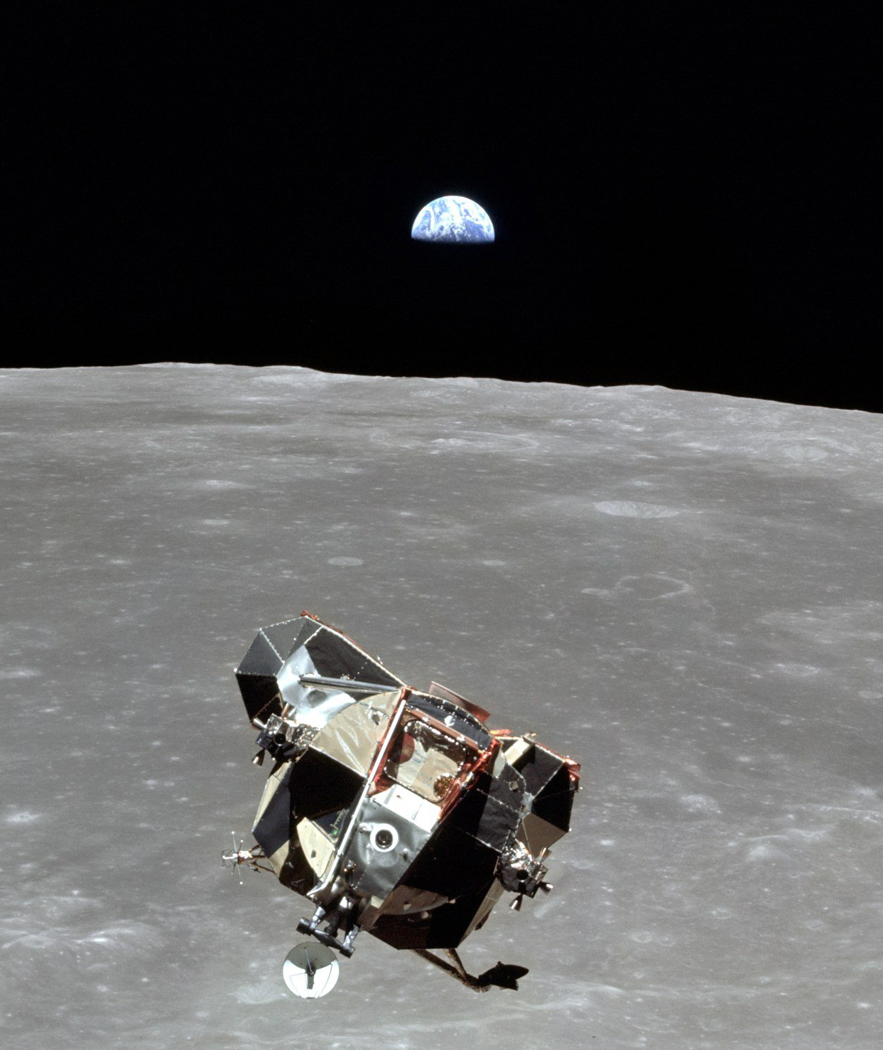 The Apollo 11 lunar module, the Moon, and the Earth. A view of the Apollo 11 lunar module Eagle as it returned from the surface of the moon to dock with the command module Columbia. A smooth mare area is visible on the Moon below and a half-illuminated Earth hangs over the horizon. The lunar module ascent stage was about 4 meters across. Command module pilot Michael Collins took this picture just before docking at 21:34:00 UT (5:34 p.m. EDT) 21 July 1969. (Apollo 11, AS11-44-6642) (hi-res)